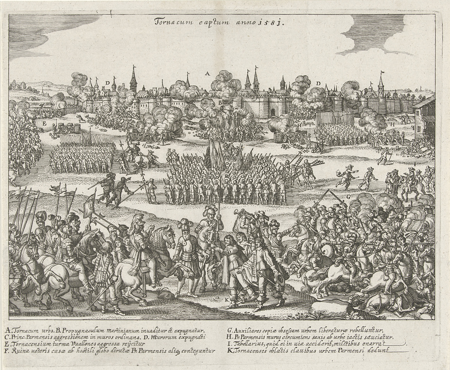 Siege the city of Doornik 1581